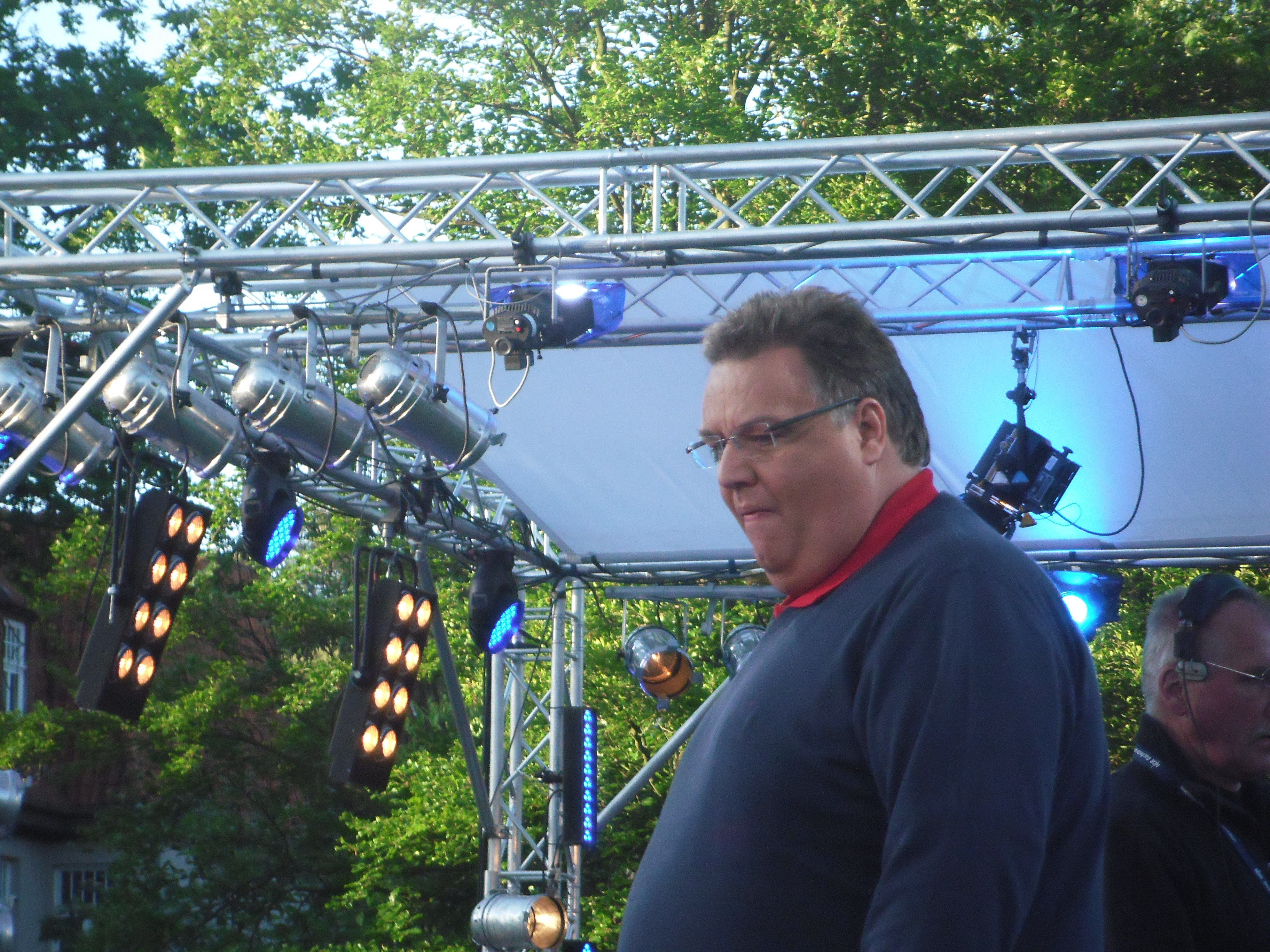 Michael Thürnau at the NDR-Schaubude-DAS!-Duell finals 2010 at Soltau